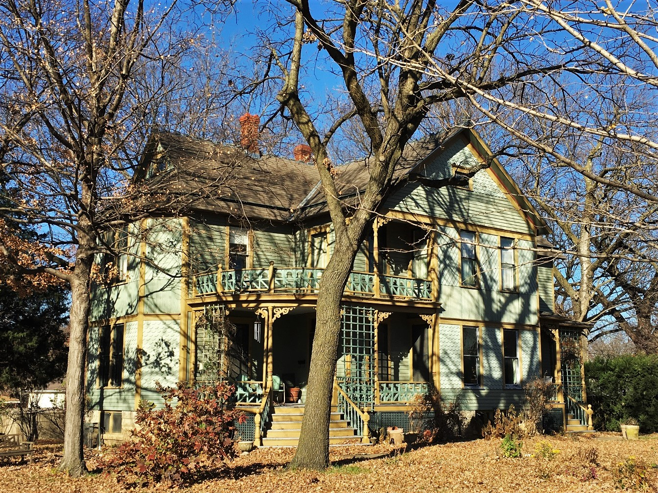 James and Ella Truitt House Site is set well off the street; this is a telephoto view.